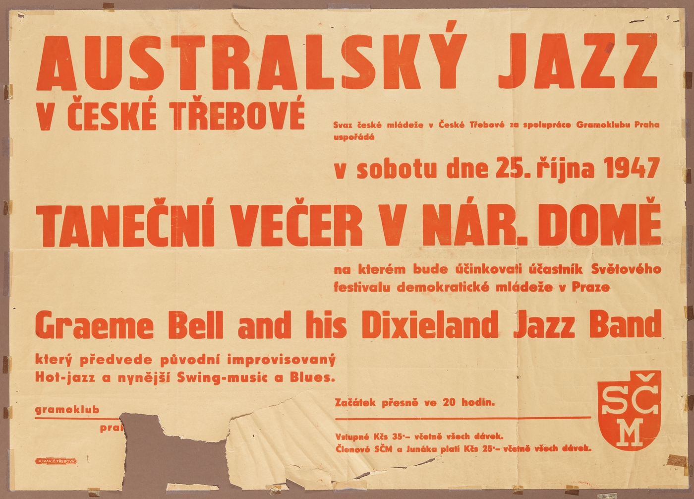 A poster for the Australský jazz v české třebové : v sobotu dne 25.řijna 1947 performance of Graeme Bell and his Dixieland Jazz Band.